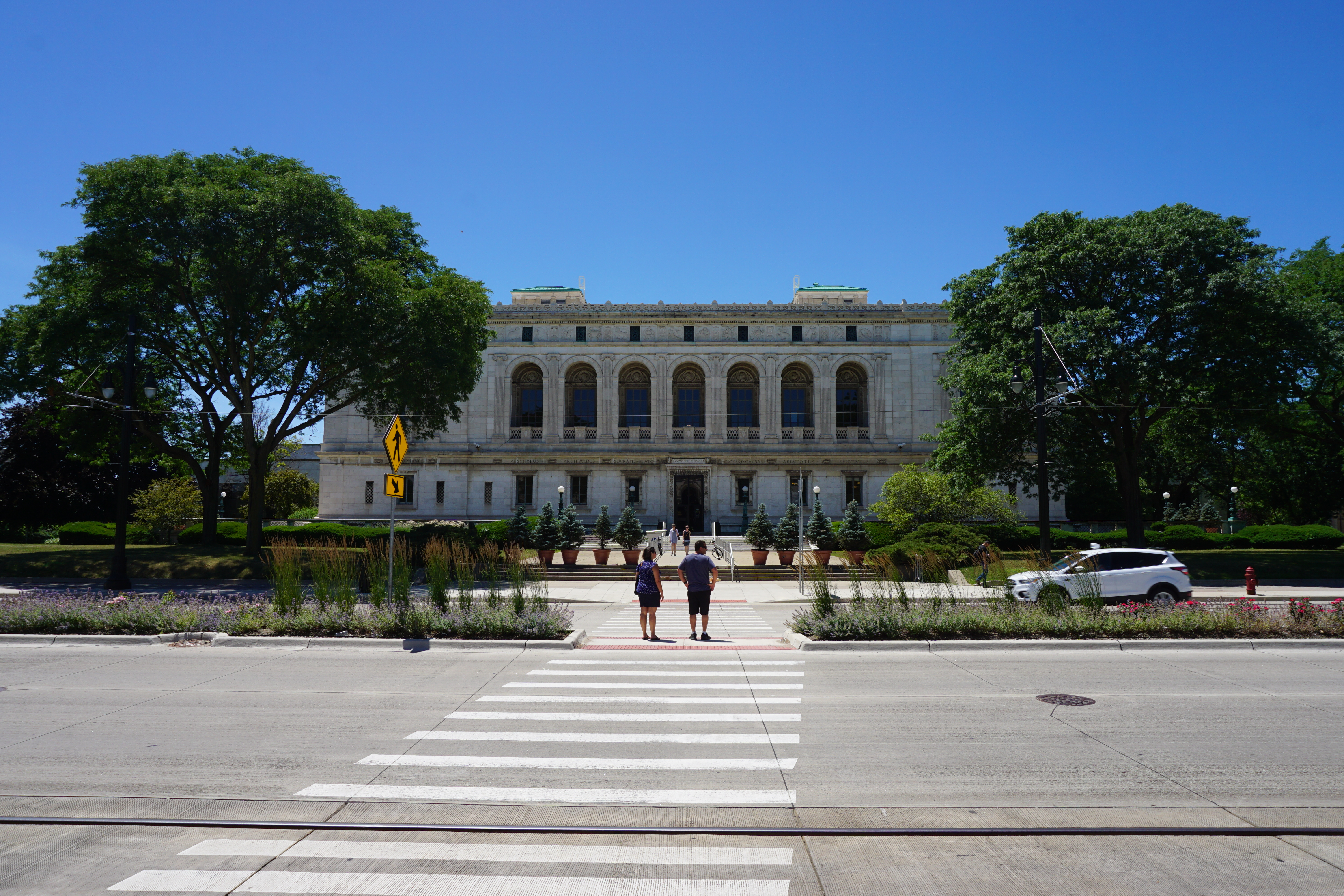 The exterior of the Detroit Public Library (Main Library) in Detroit, Michigan (United States).